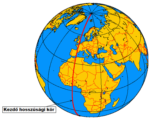 Prime meridian on Earth (Greenwich meridian)